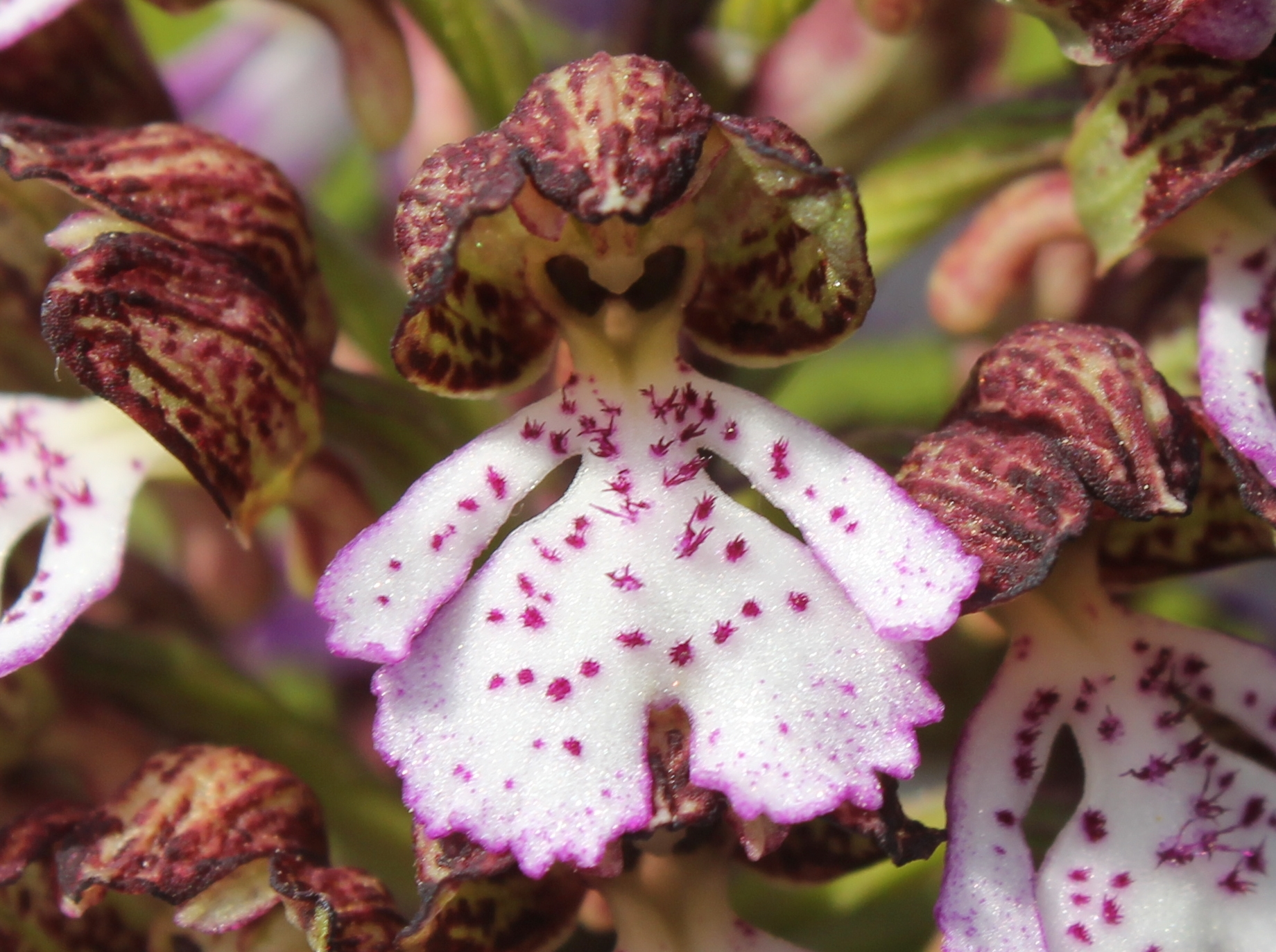 Orchis purpurea labellum